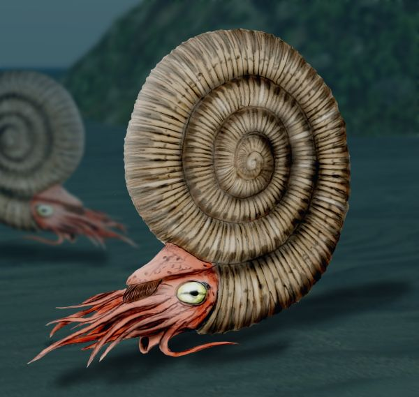 Dactylioceras